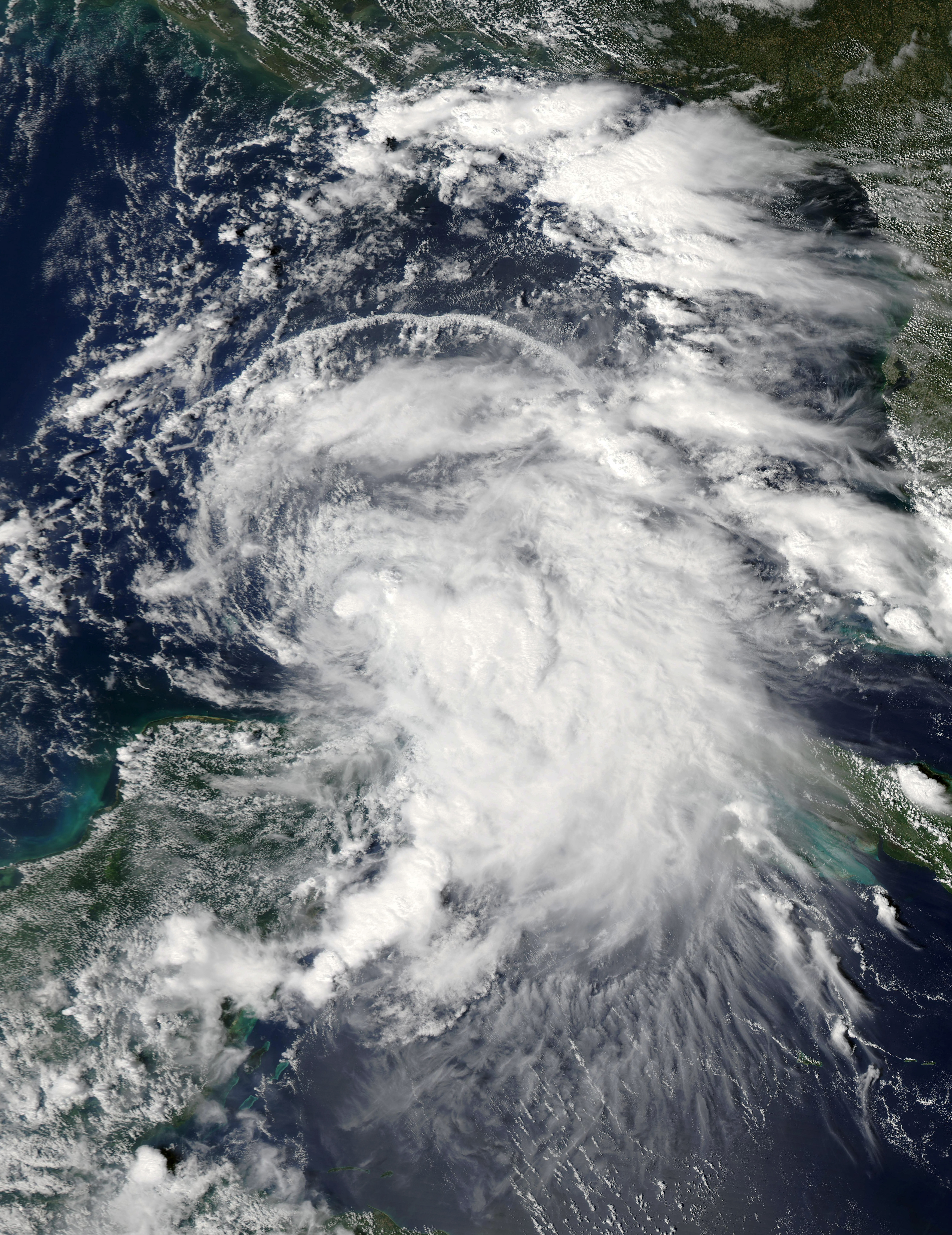 Tropical Storm Karen in the Gulf of Mexico on October 3, 2013.